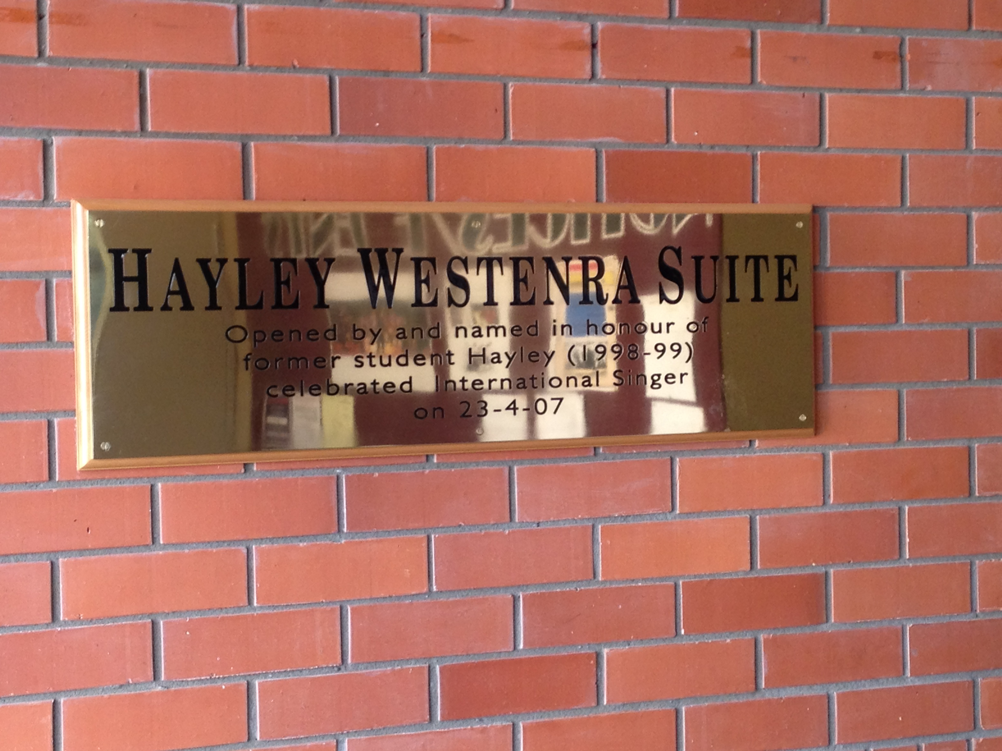 Plaque commemorating Hayley Westenra at Cobham Intermediate.